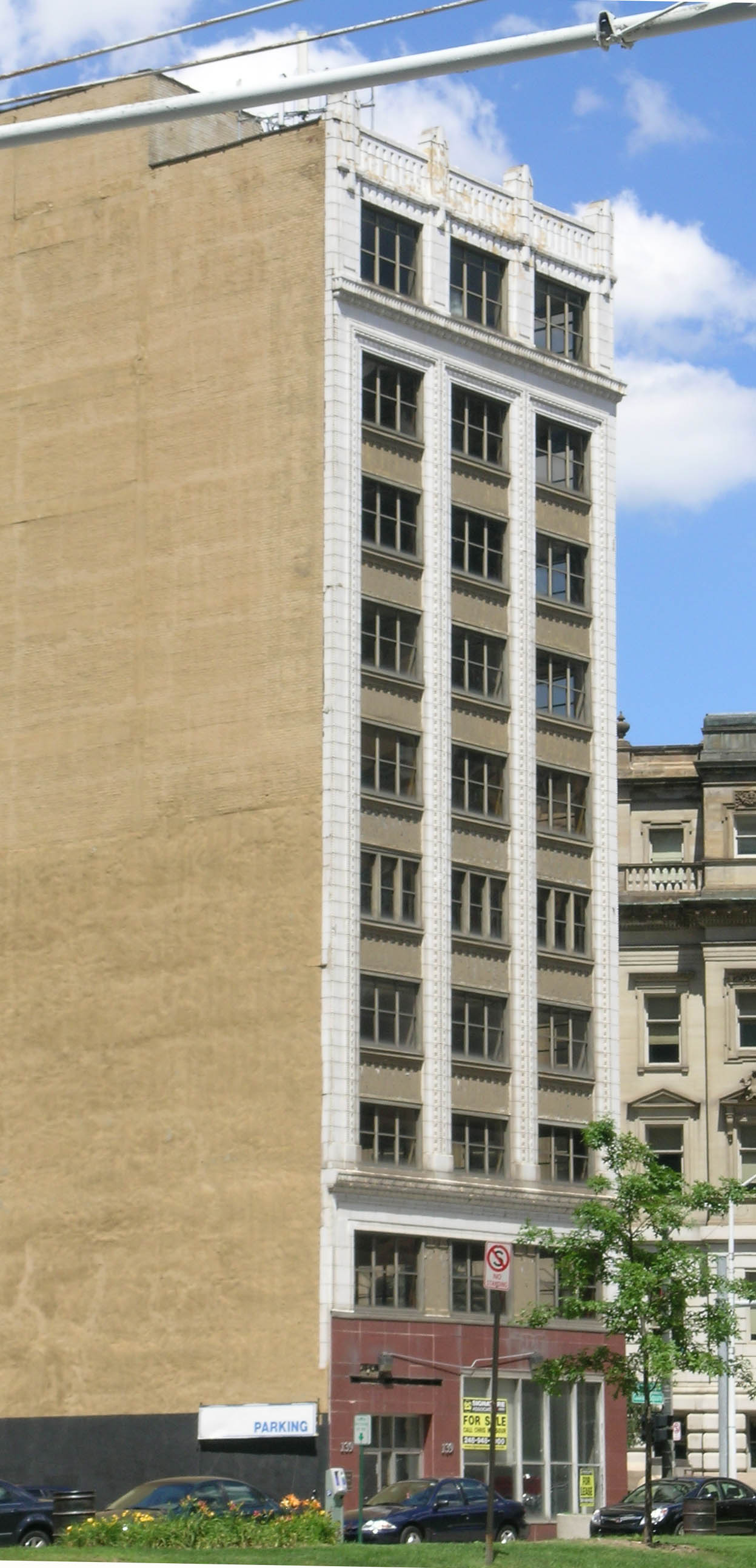 Lawyer's Building, Detroit MI